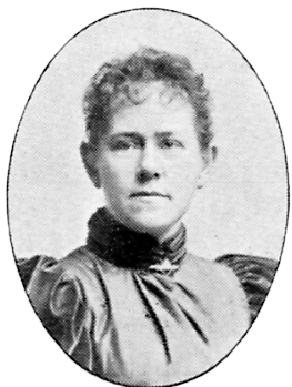 Image scanned from the book "Svenskt Porträttgalleri XX - Arkitekter, Bildhuggare, Målare m.fl. " ("Swedish Portrait Gallery XX - Architects, Sculptors, Painters, ") published 1901